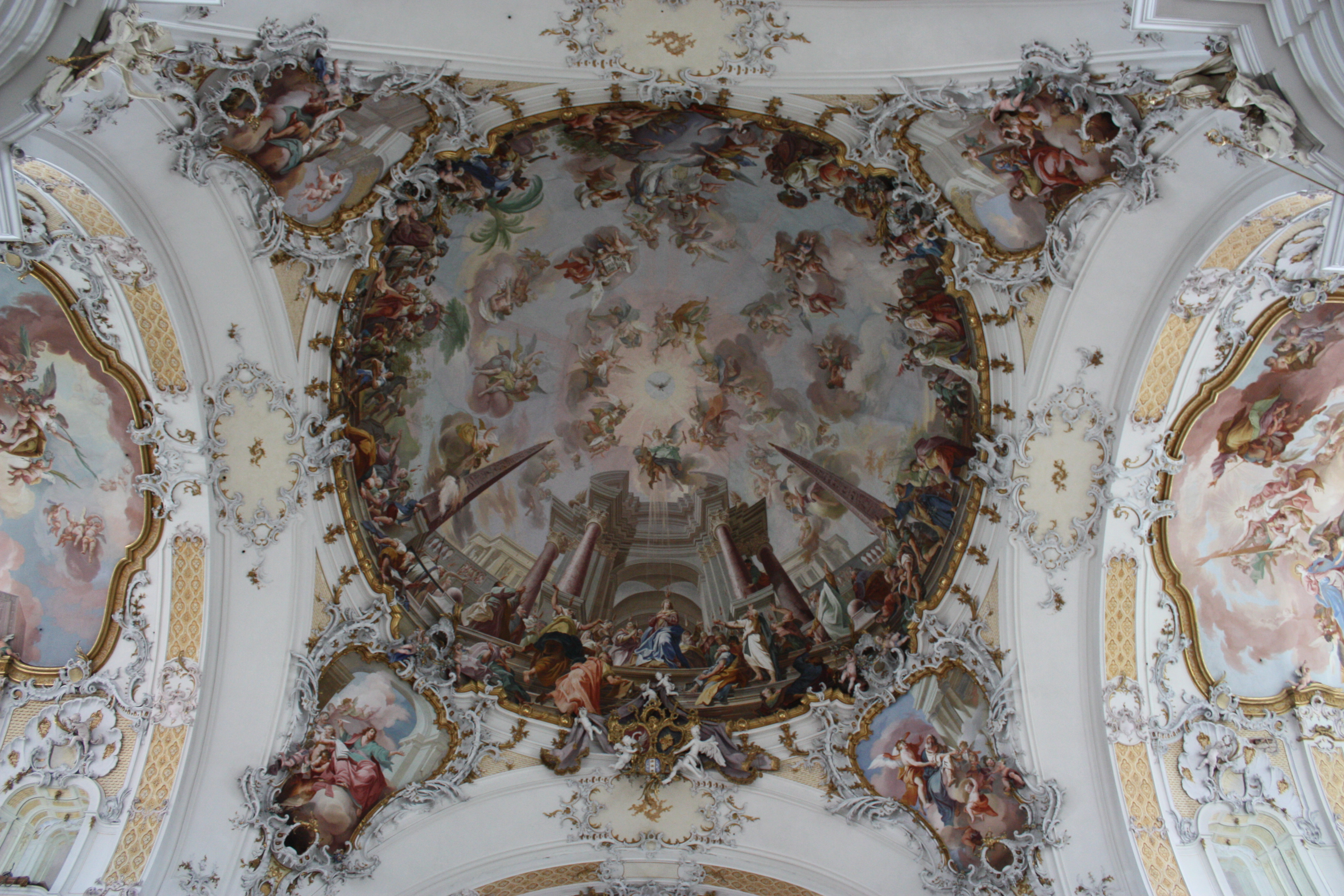 Basilica of Ottobeuren. Fresco "Pentecost" ( 1758 ) by Johann Jakob Zeiller